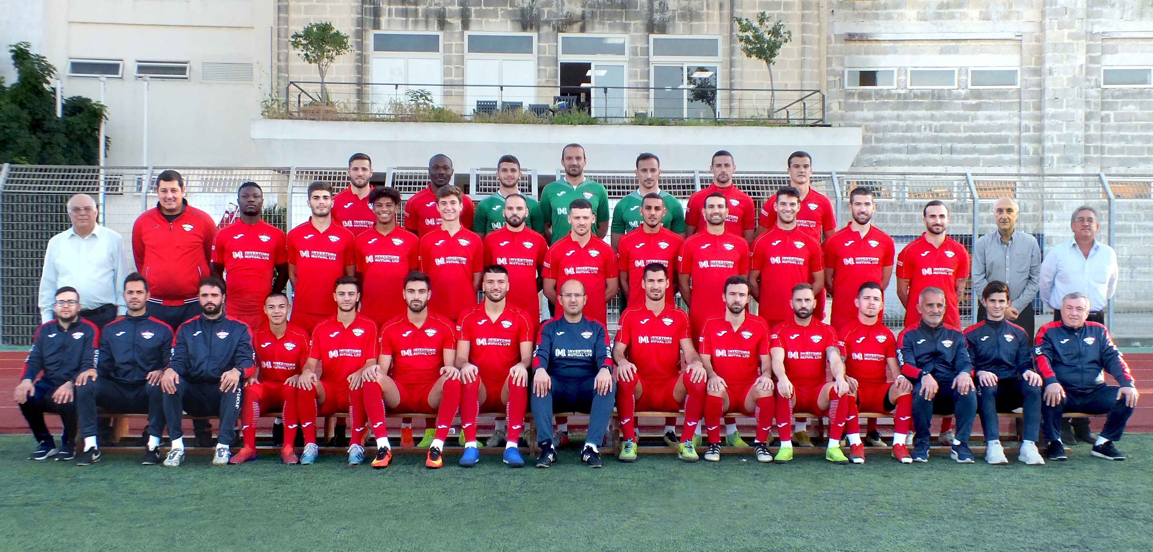 Balzan FC First Team 2019-20